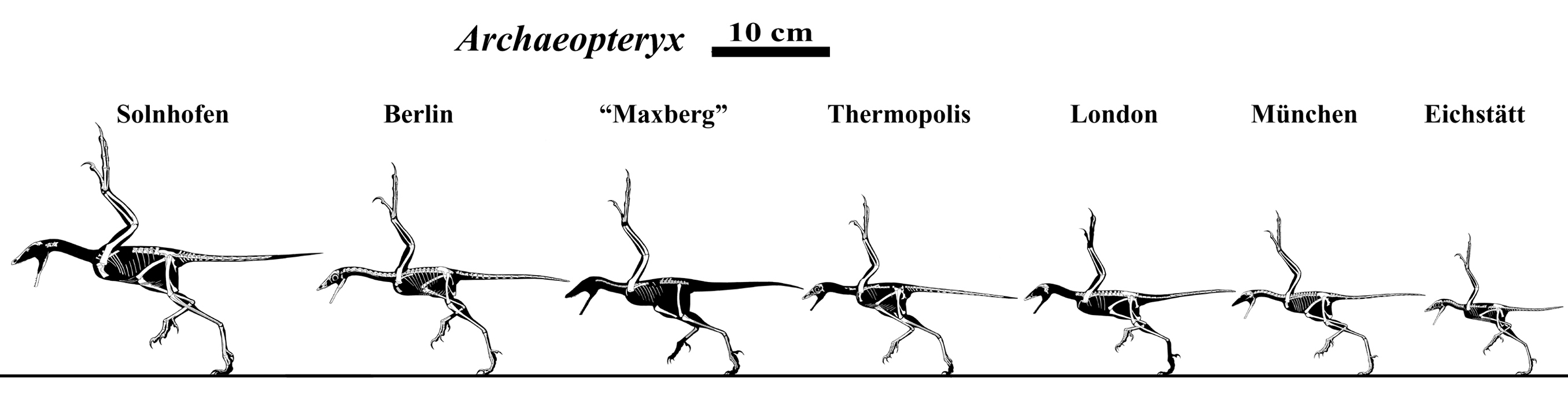 Skeletal reconstruction of Archaeopteryx.